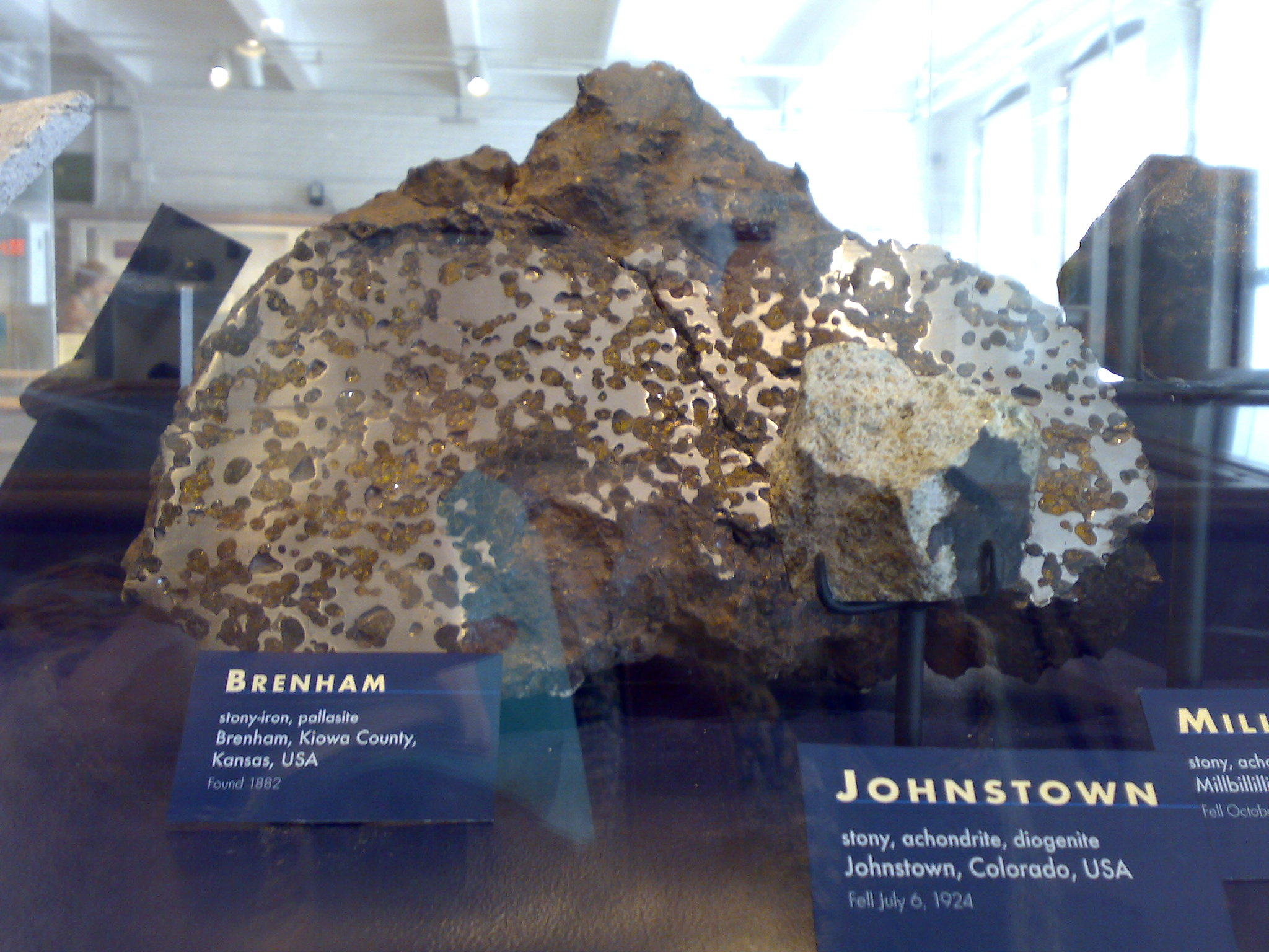 Brenham meteorite (pallasite) Taken at 3:39 PM on June 10, 2007